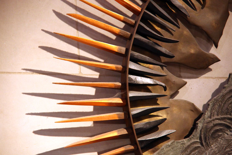 Detail of "The Suffering Christ" artwork in the War Memorial Chapel at the Washington National Cathedral in Washington, D.C., USA. The War Memorial Chapel honors people who have served in the United States military. Planning for some sort of war memorial in the cathedral began in 1946. The original plan was to build a War Memorial Chapel in the North Transept, but by 1947 the goal was to build a "Patriot's Transept" in the south instead. Shortly thereafter, a War Memorial Chapel was added. By 1950, plans were made for three stained glass windows in the chapel, as well as "Books of Remembrance." The transept opened on September 28, 1952. The War Memorial Chapel was mostly complete by 1953, but was not dedicated until October 20, 1957. President Dwight Eisenhower and Queen Elizabeth II dedicated it in a brief ceremony. The bookcases to the right of the altar contain the "National Roll of Honor," which is a listing of the names and dates of service of tens of thousands of U.S. soldiers, sailors, airmen, and marines. (Anyone can have their loved one enrolled here.) Above them are carved wooden shields, painted to look like war theater service medals from American history. The stained glass windows emphasize the themes of freedom and sacrifice in wartime. Among the scenes depicted are: Moses leading the Israelites out of Egypt; Abraham Lincoln emancipating the slaves; the flag-raising at Iwo Jima; paratroopers landing on a battlefield; and much more. "The Suffering Christ" is the artwork above the altar. Designed and executed by British artist Steven Sykes, torn sheets of brass in the halo simulate brass cannon shells. The spikes inside the halo are cast aluminum colored to remind the viewer of barbed wire. The copper rays of light in the halo look like bayonets. The three-foot high oak rails in the chapel were paid for by the donations of hundreds of U.S. Marines on the 20th anniversary of the Battle of Iwo Jima.